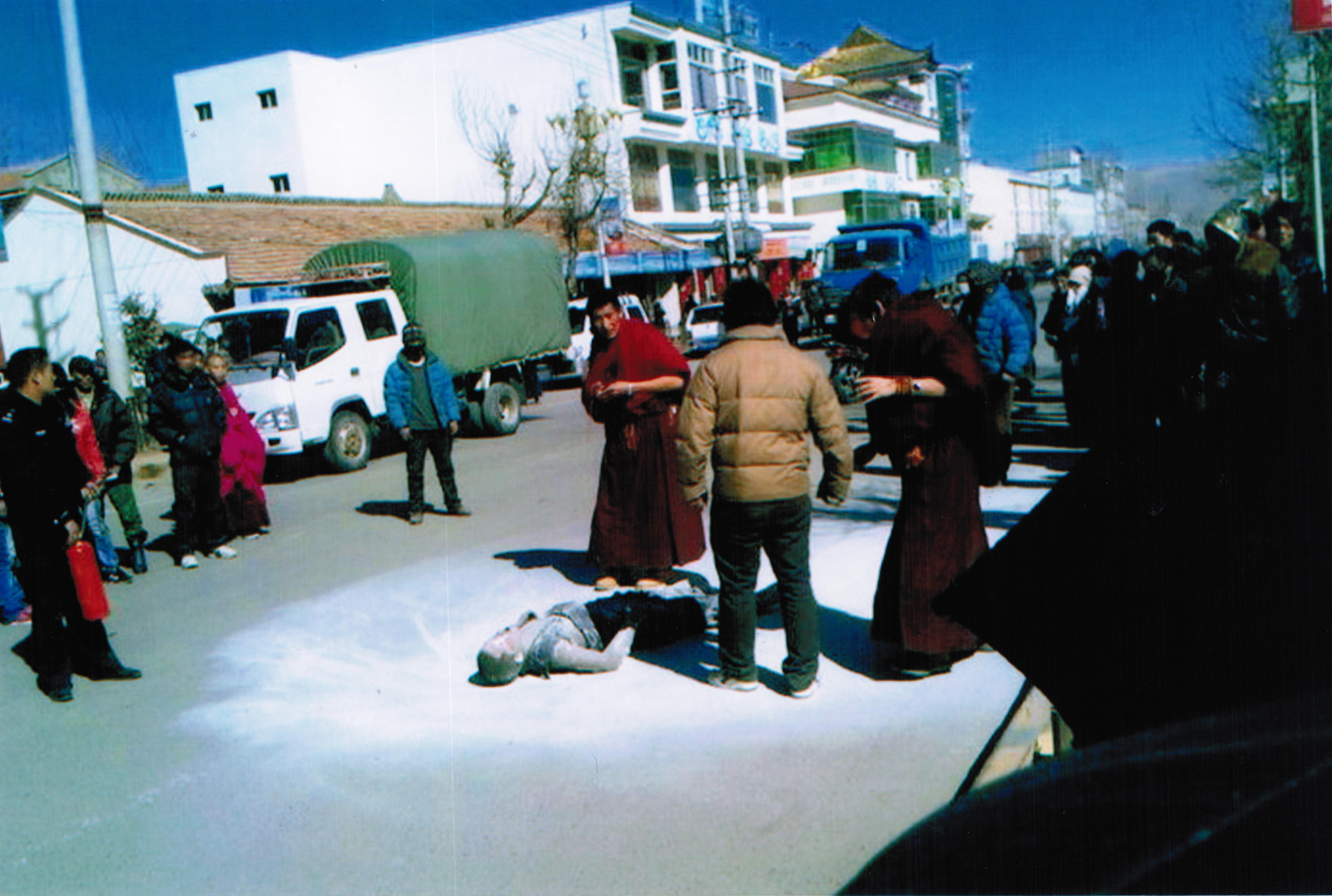 Phuntsog, 21 years old, 16 March 2011, Ngaba.